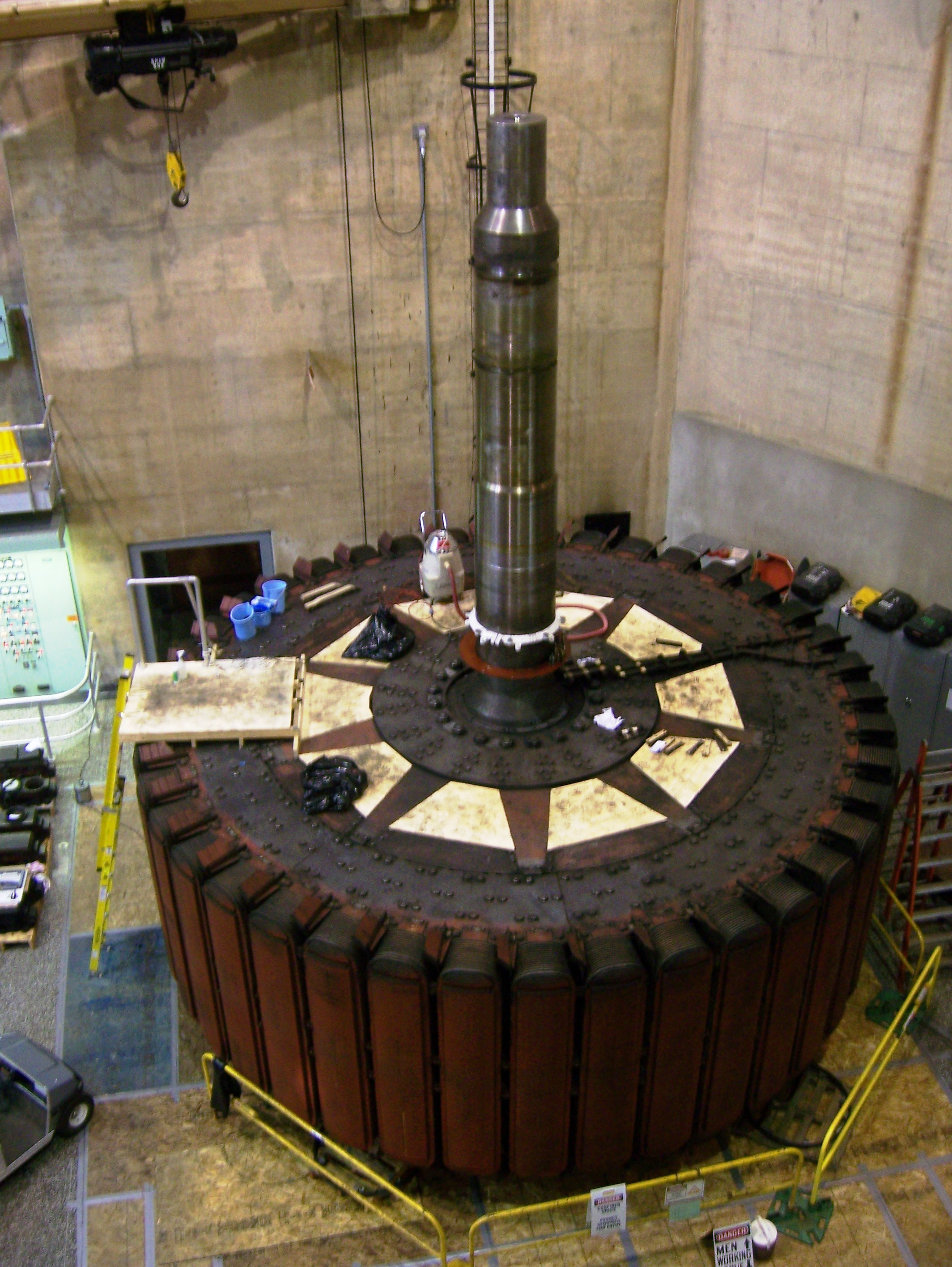 Hoover Dam Generator beeing serviced